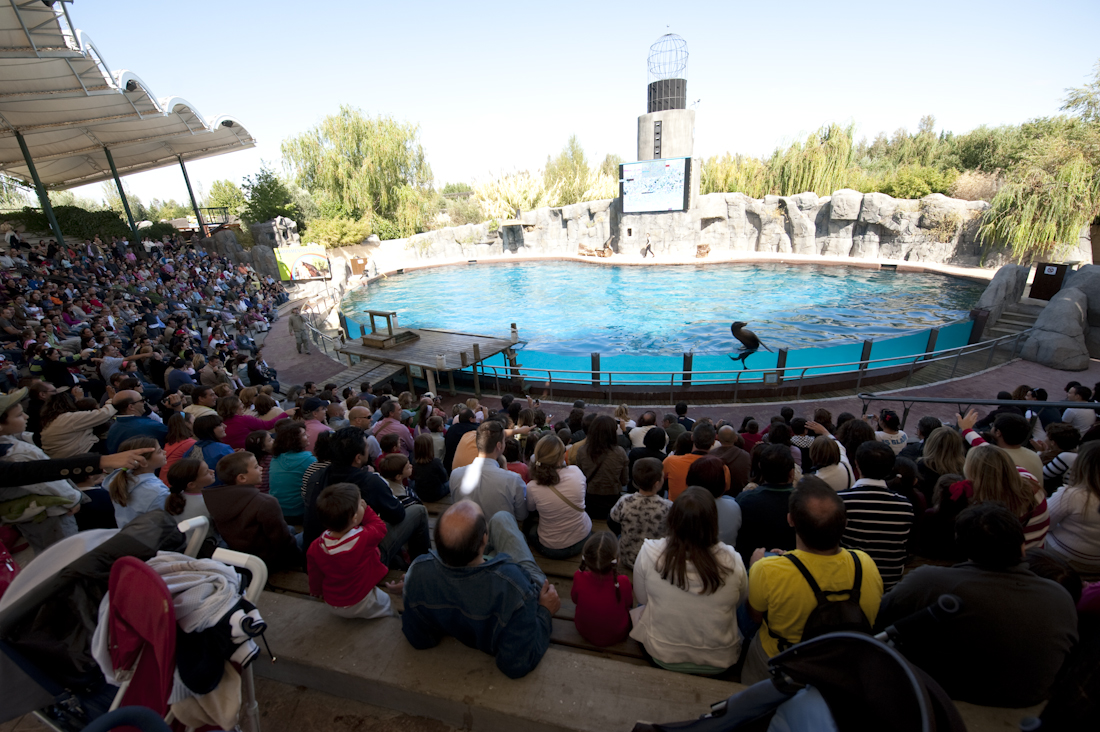 teatro lago de Faunia